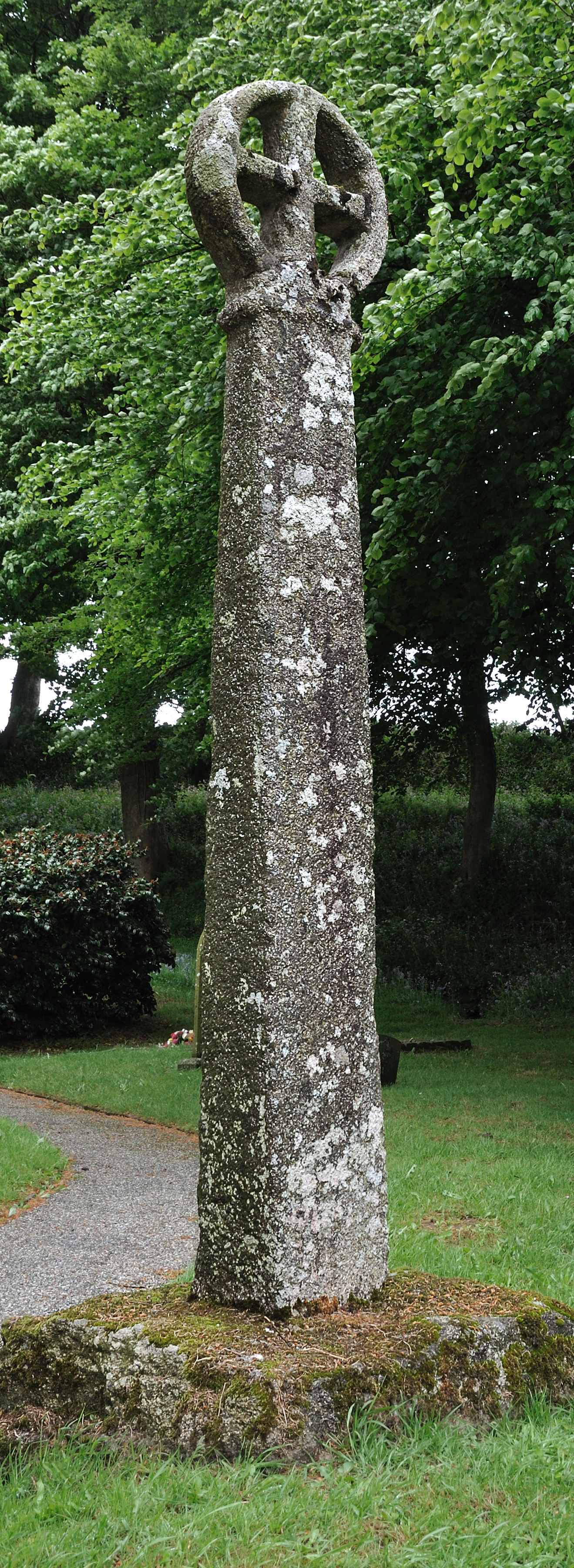 Celtic Cross near the Church in Michaelstow, Cornwall, UK